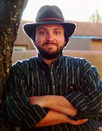 Cliff Joslyn (1961) is an American cognitive scientist, cyberneticist, and currently Chief Scientist for Knowledge Sciences at the Pacific Northwest National Laboratory in Richland, Washington, USA.